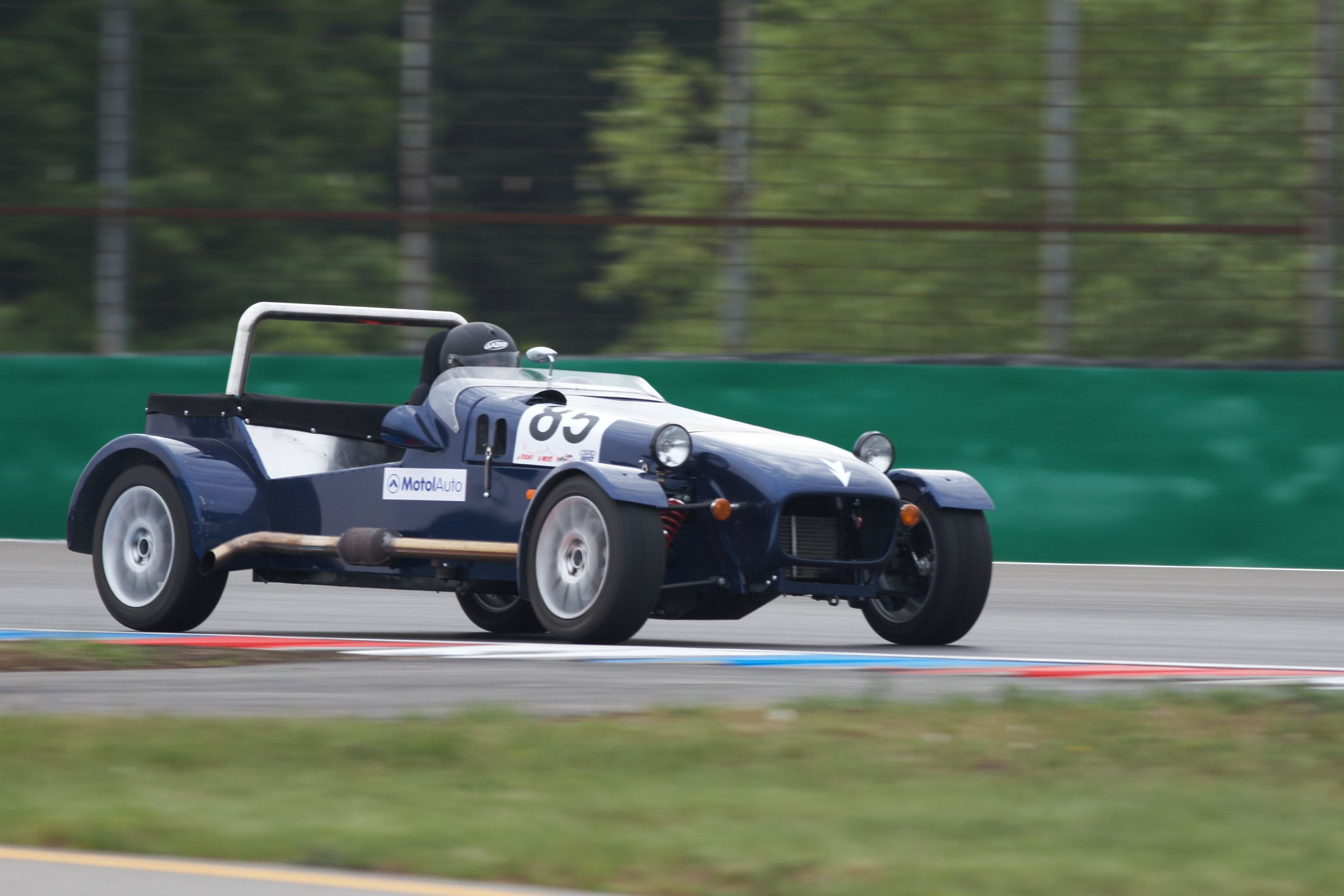 Kaipan 57 during 12h Le Brno race